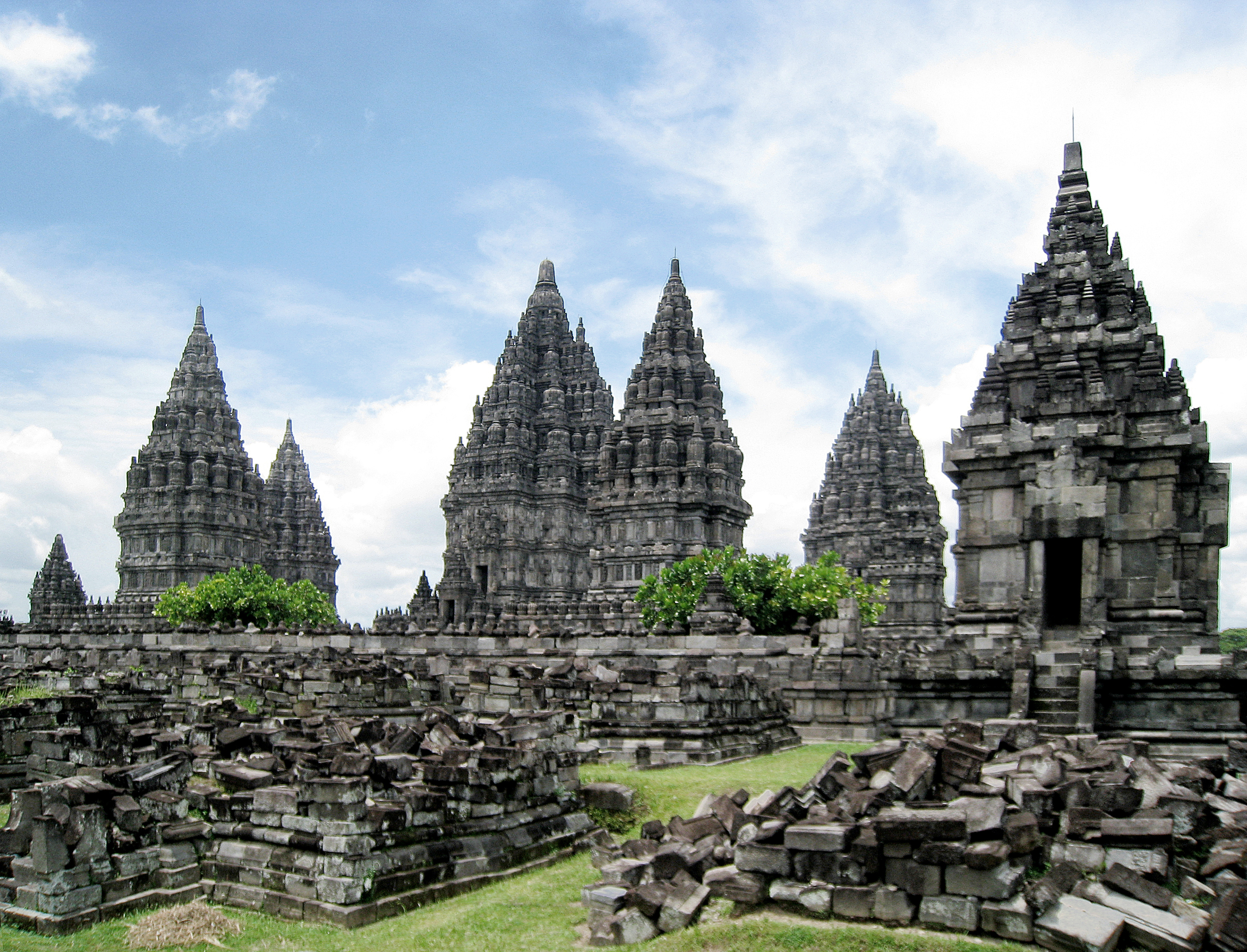 The 9th century Hindu Trimurti Prambanan temple, located on the border between Yogyakarta and Central Java province. The three largest temple is dedicated to Shiva in the centre, Brahma on the left, and Vishnu on the right. On the front of each temples are the temples of vahanas (vehicle of gods). There is originally hundreds of prevara temples.